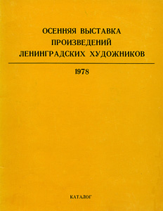 Cover of the catalog of Autumn Exhibition of works by Leningrad artists of 1978